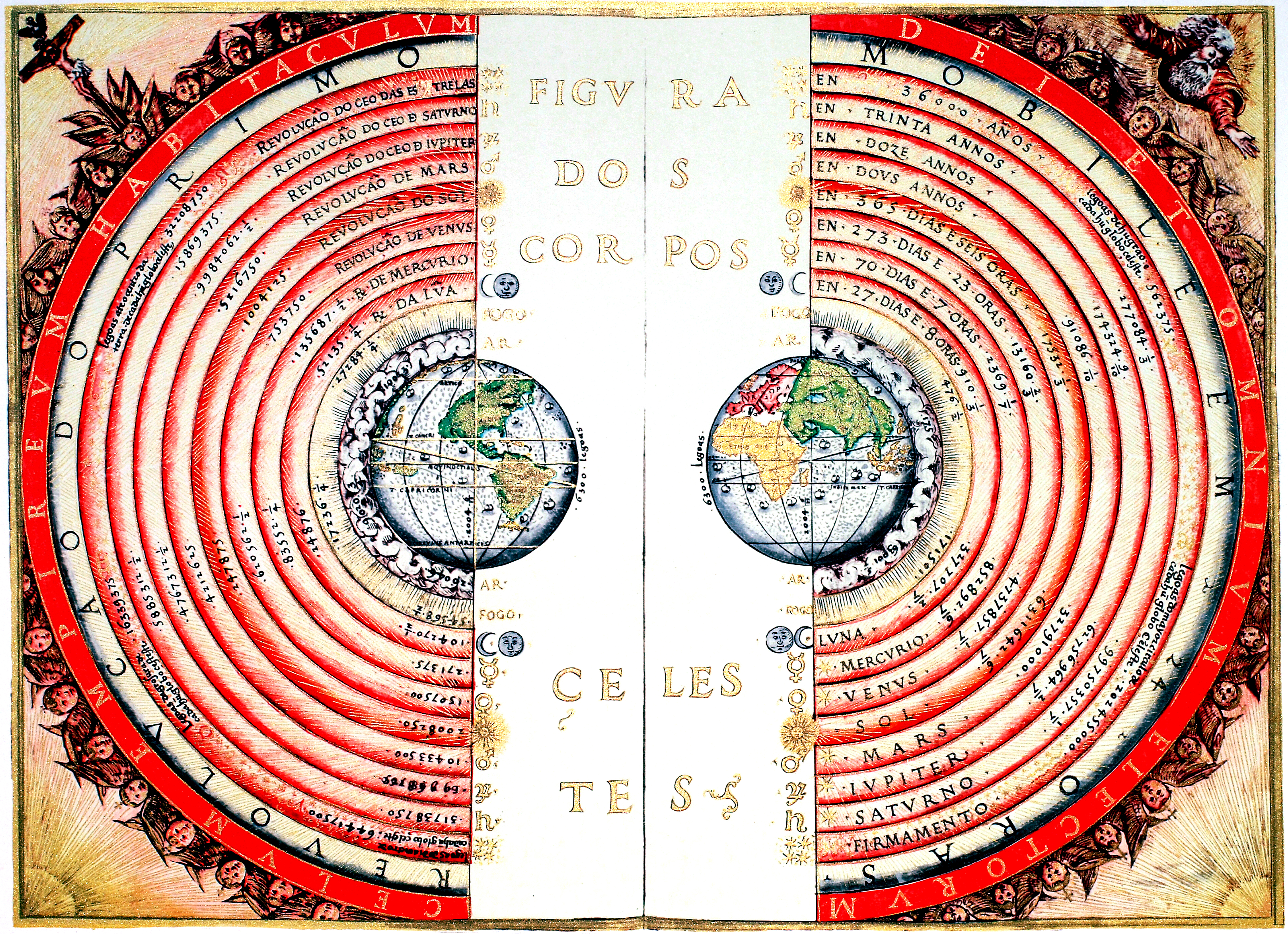 Cosmic map using geocentric model